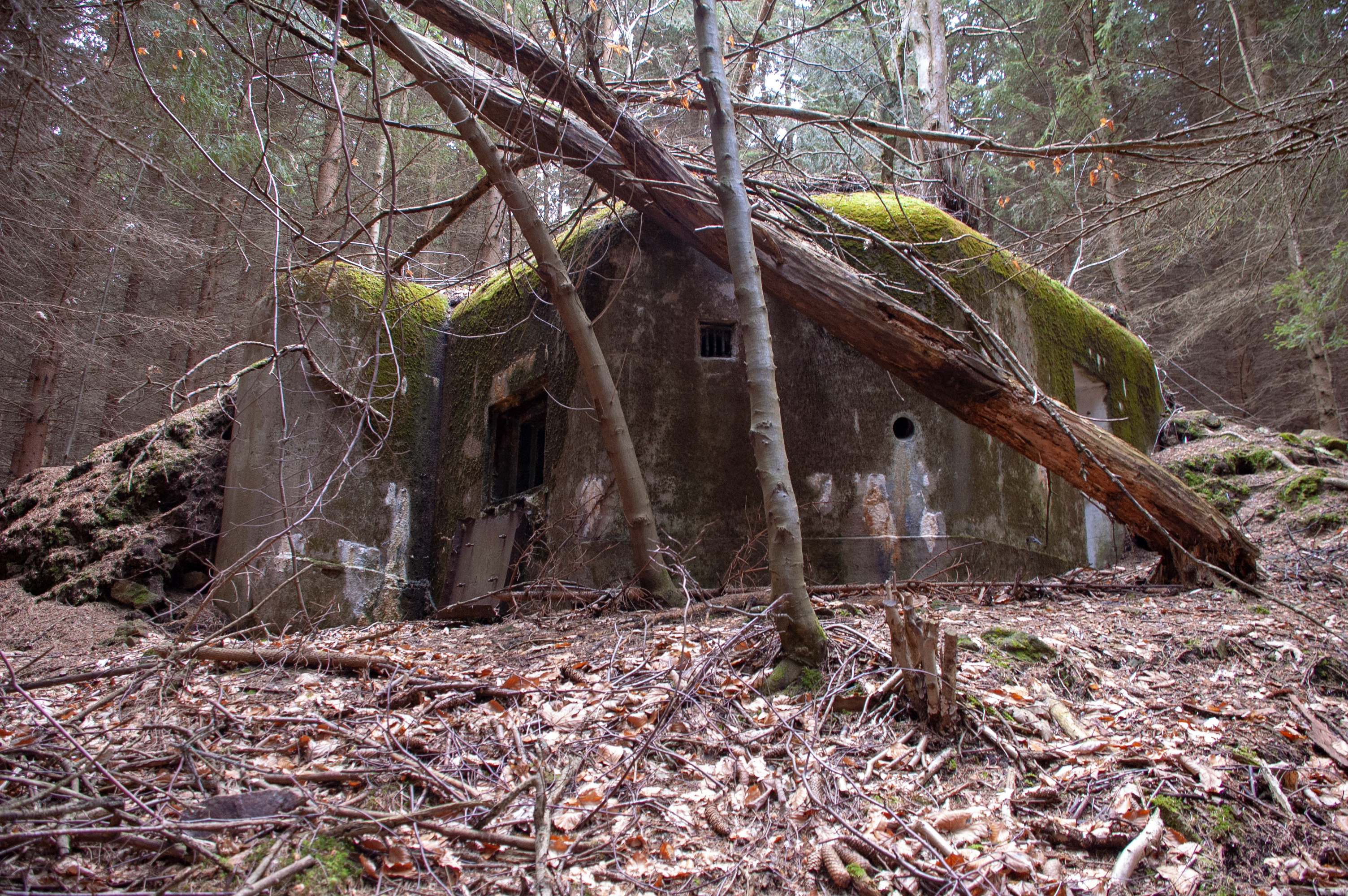 This image was created as a part of Editaton Prachatice (Czech).